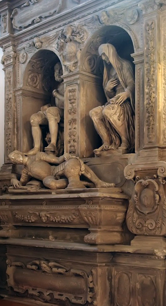 Kryski Tomb in Drobin (circle of Santi Gucci, 1572-1576).